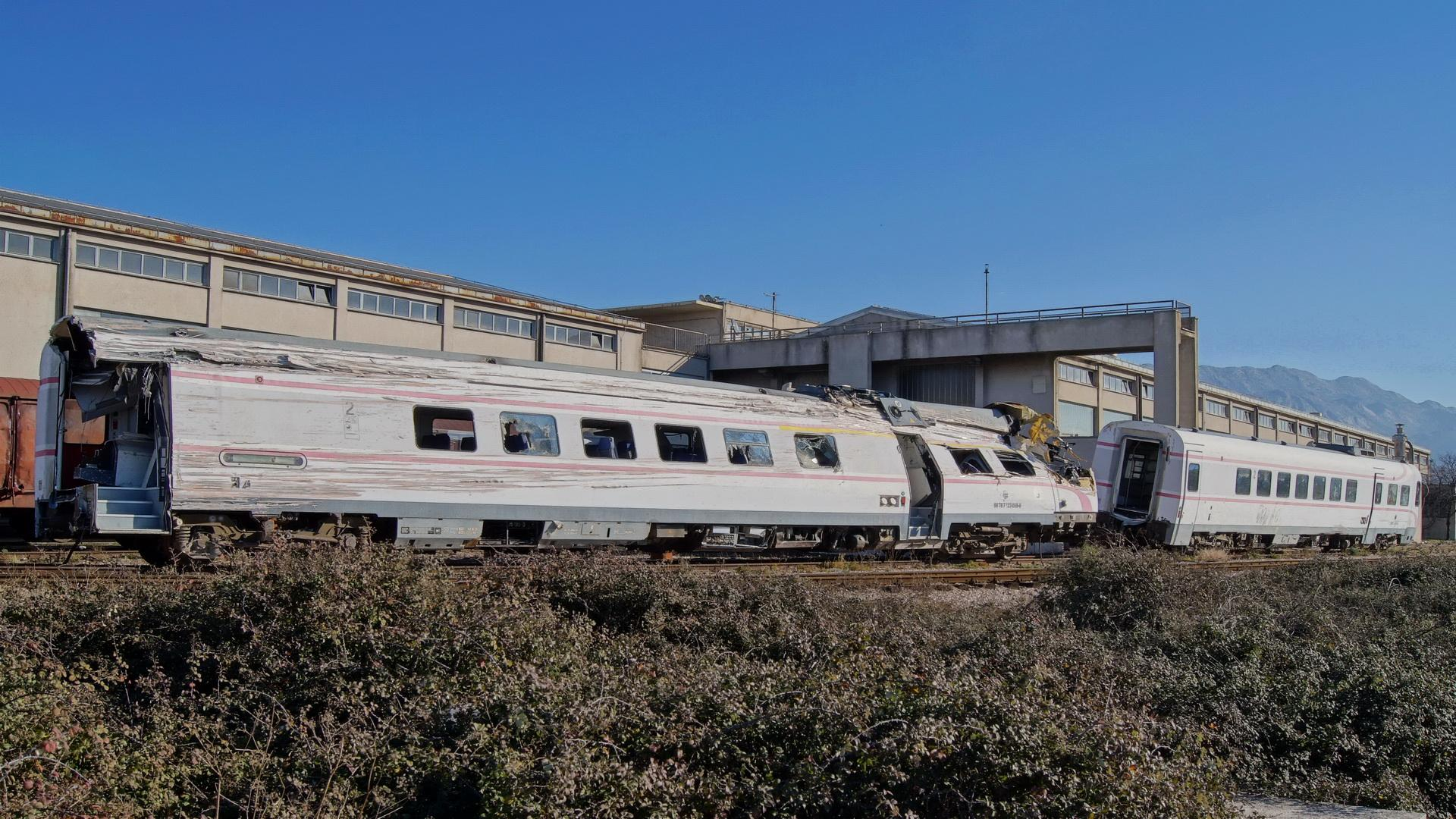 Car remains after 2009 Rudine Train Derailment; now situated at the Solin terminal of Split suburban area. See more about the accident at 2009_Rudine_train_derailment